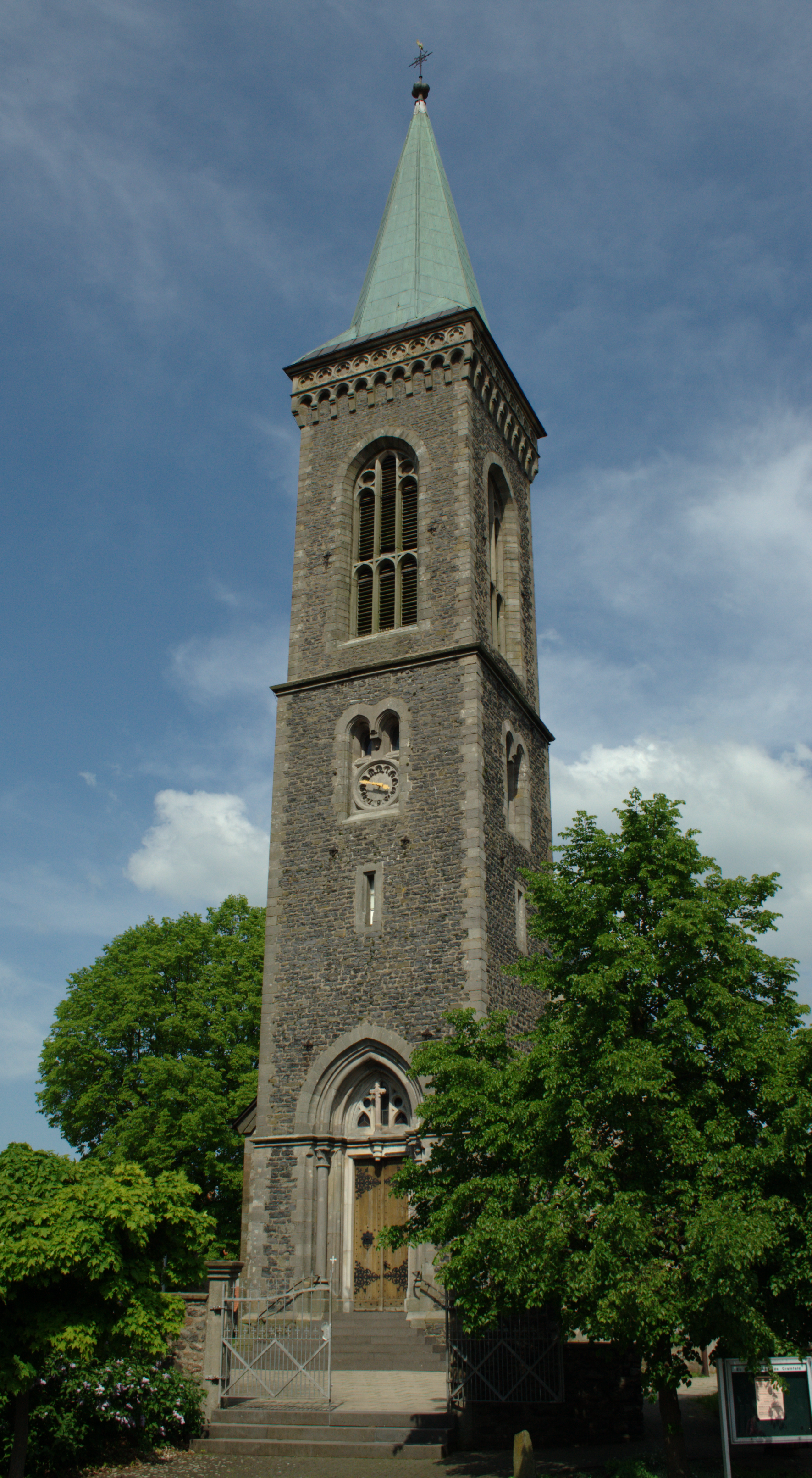 Church in Crainfeld, Hesse, Germany